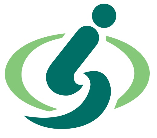 Saitama Saitama chapter